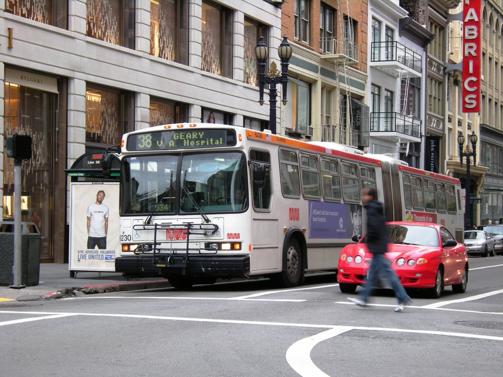 One of San Francisco buses stopping at Geary & Stockton